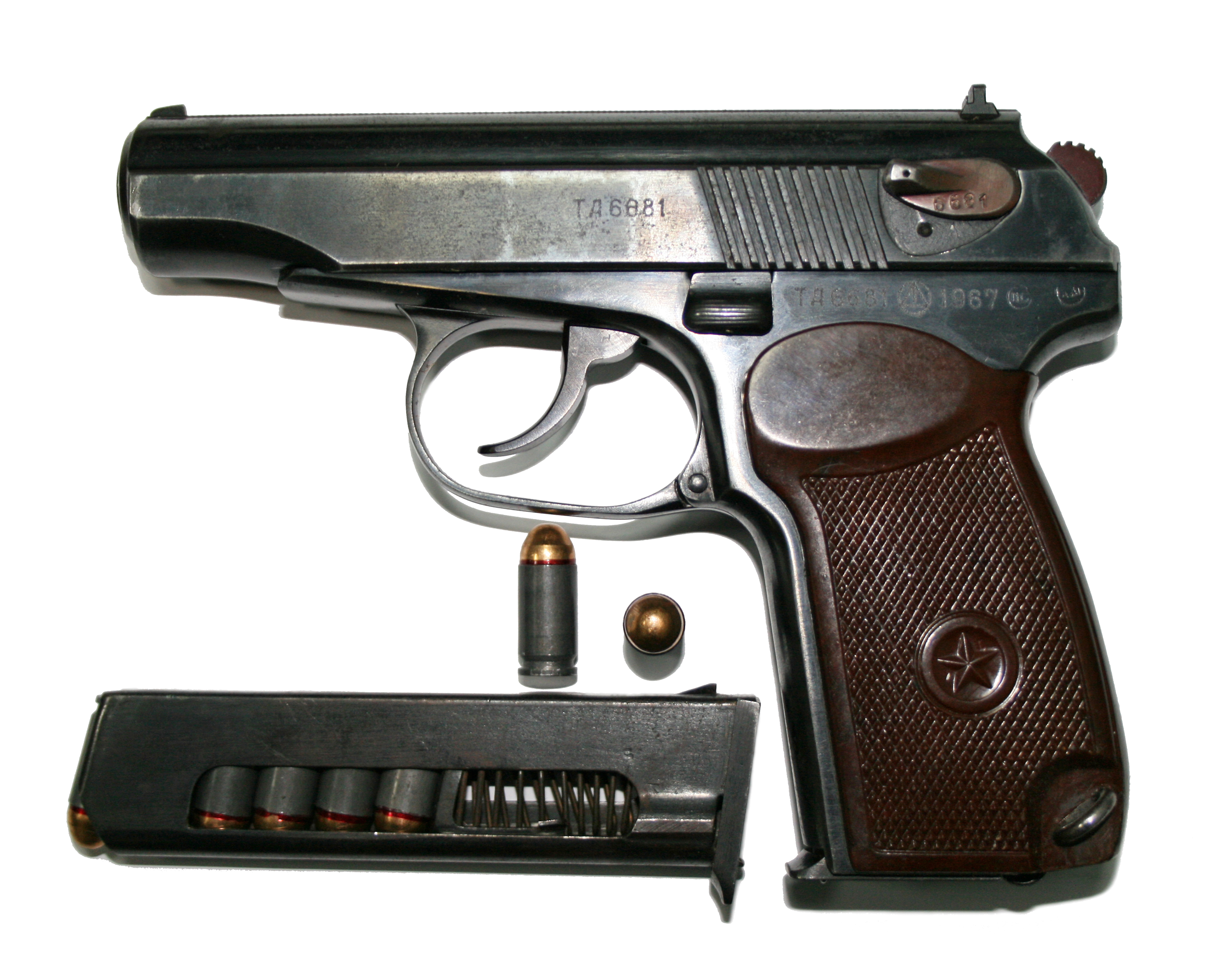 9-mm Makarov pistol. Photo Andrey Mironov